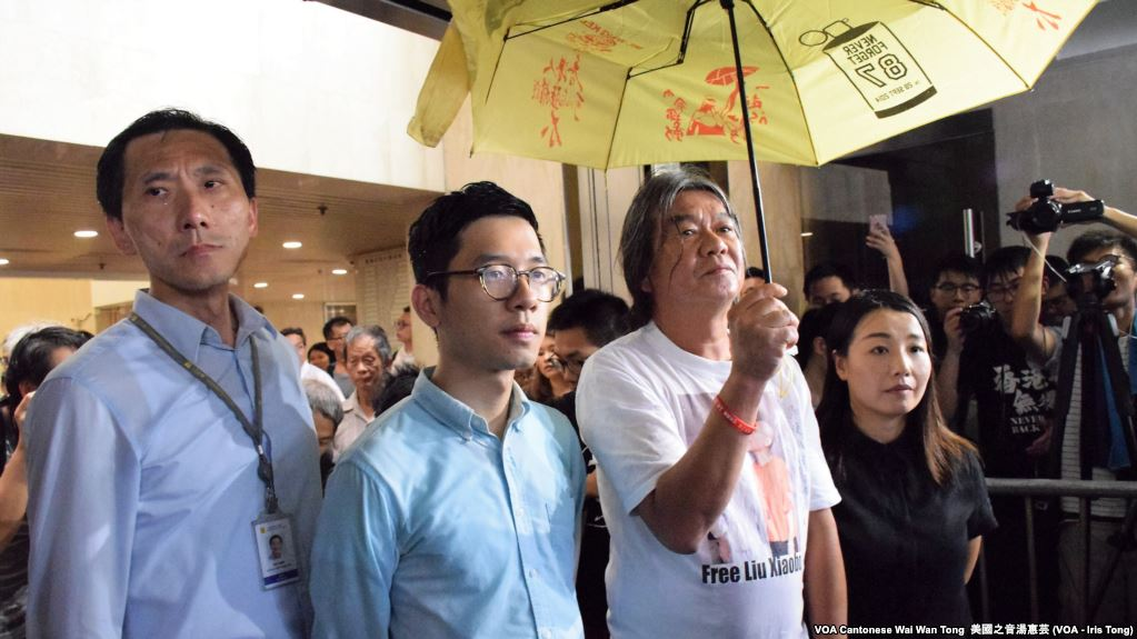 Hong Kong court disqualifies 4 pro-democracy lawmakers